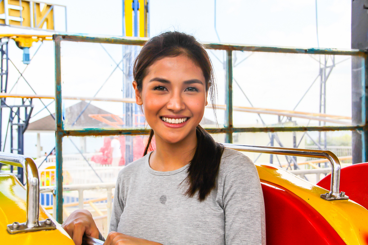 Sanya Lopez at GMAAC Skyranch Date